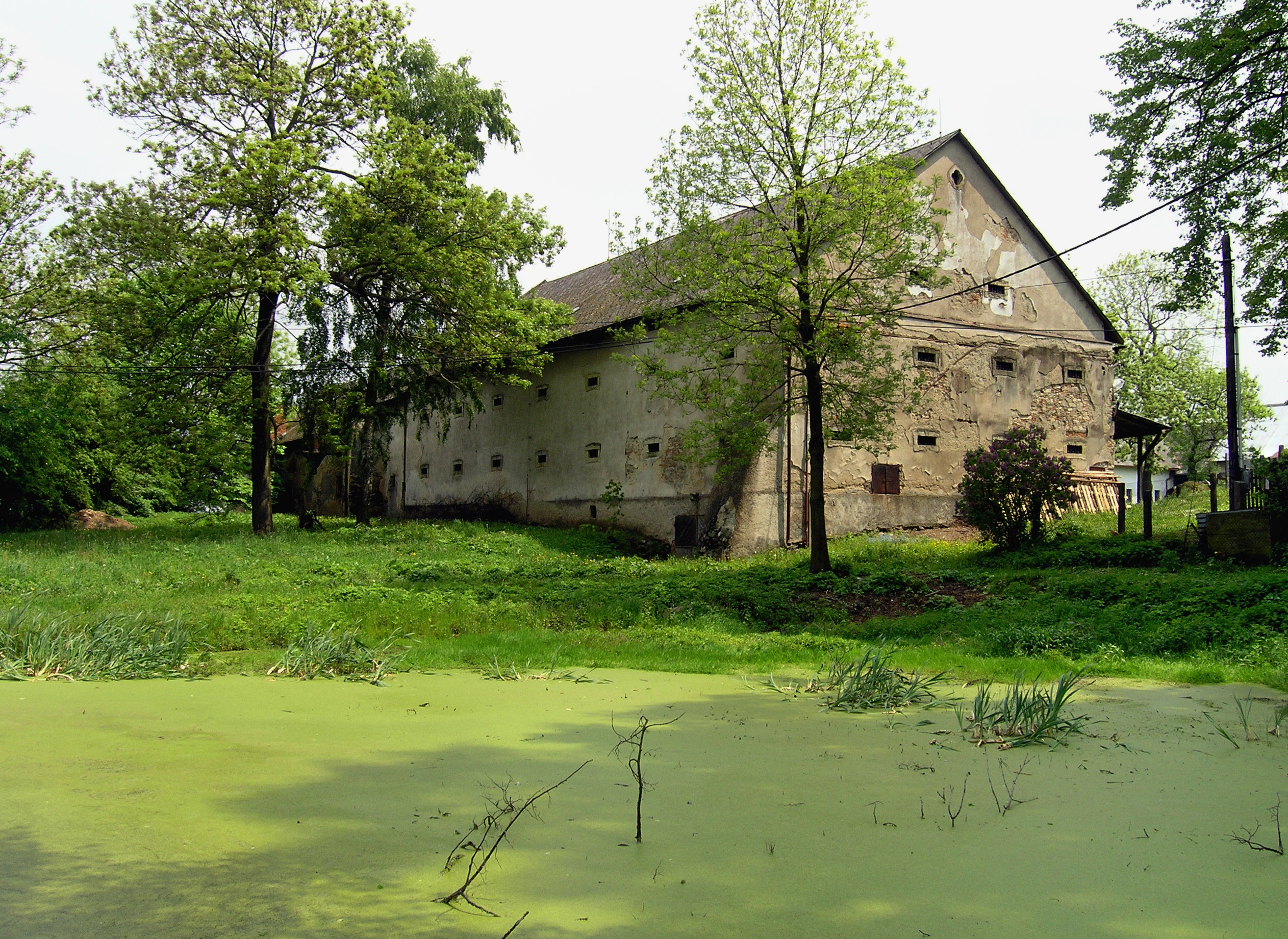 Common pond in Nejepín village, Czech Republic